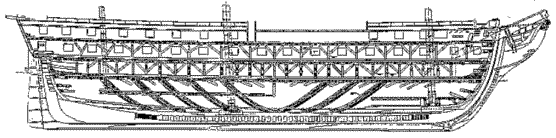 USS Constitution midship profile depicting the 1992 restoration of the hull. Diagonal riders pictured on orlop deck.